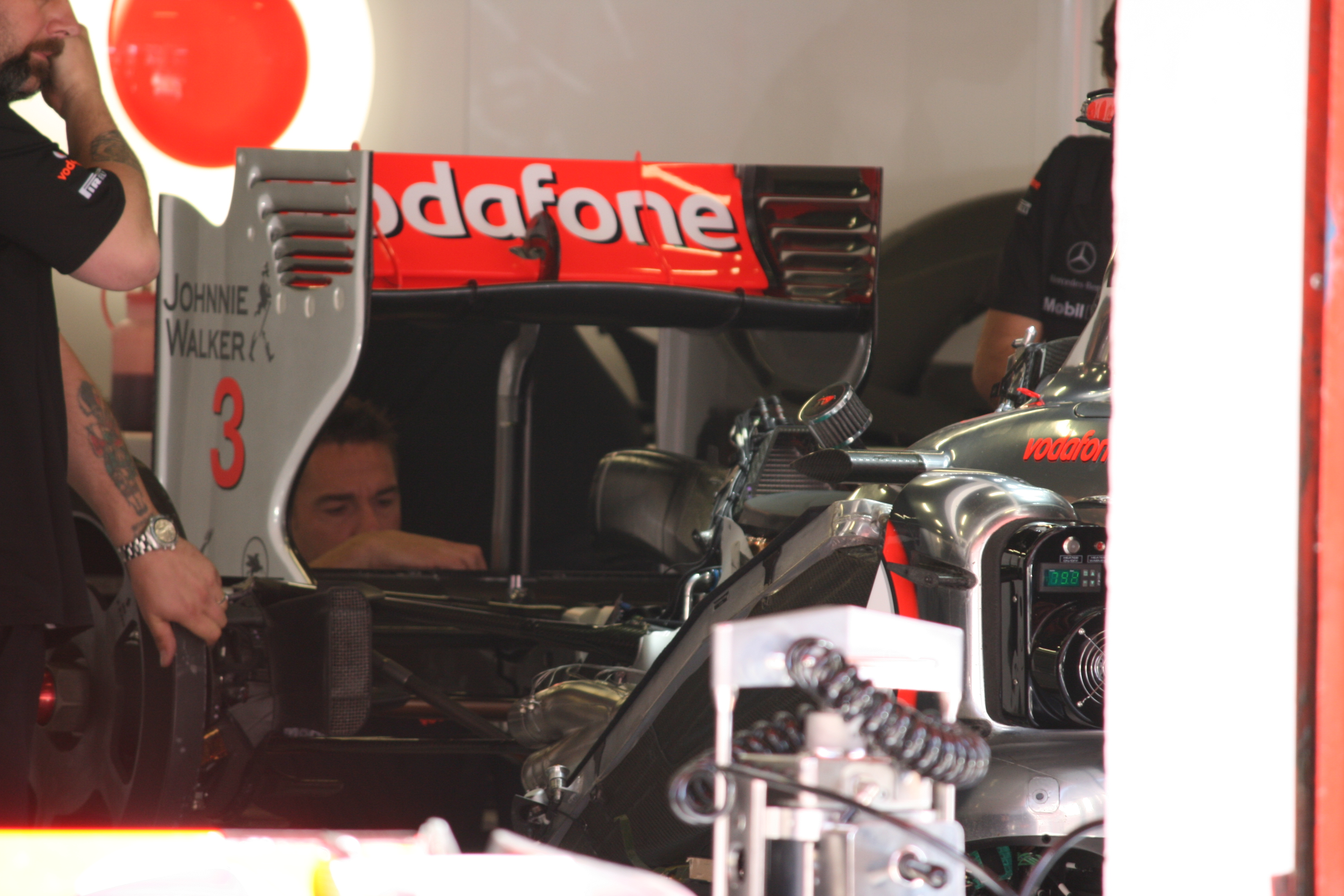 McLaren MP4-26 in garage at 2011 Spanish Grand Prix